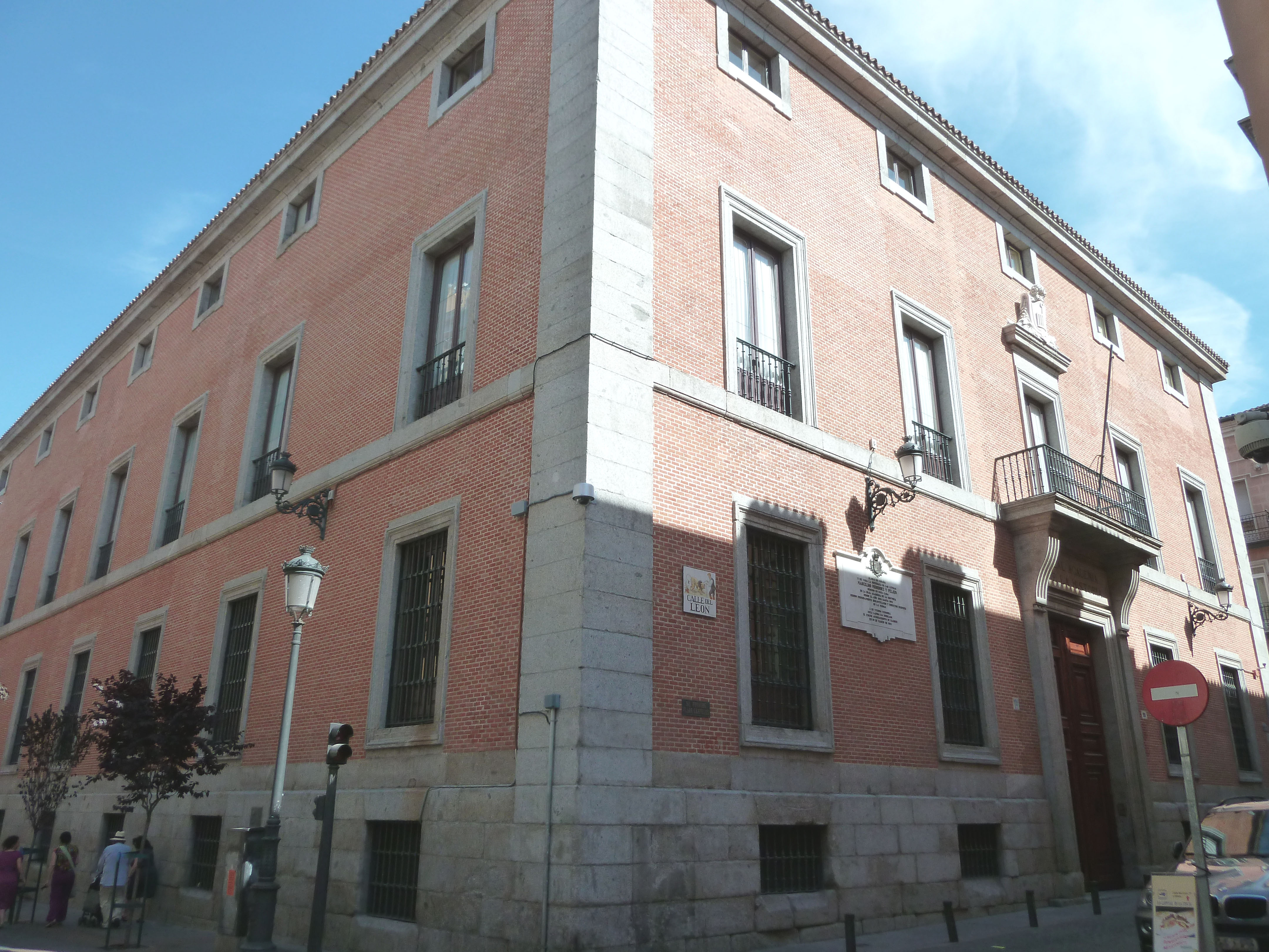 Former Nuevo Rezado in Madrid, home of the Spanish Royal Academy of History.